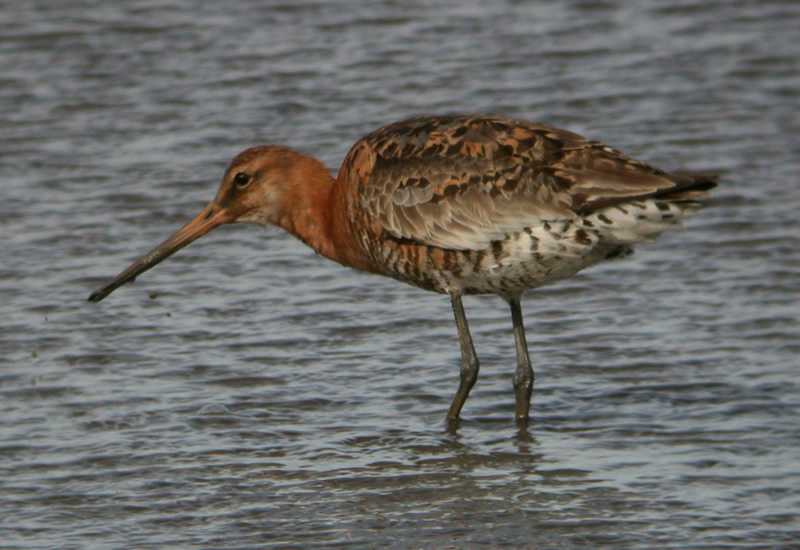 Breeding-plumaged Black-tailed Godwit, Limosa limosa islandica, feeding at RSPB Titchwell Marsh nature reserve, Norfolk, England.